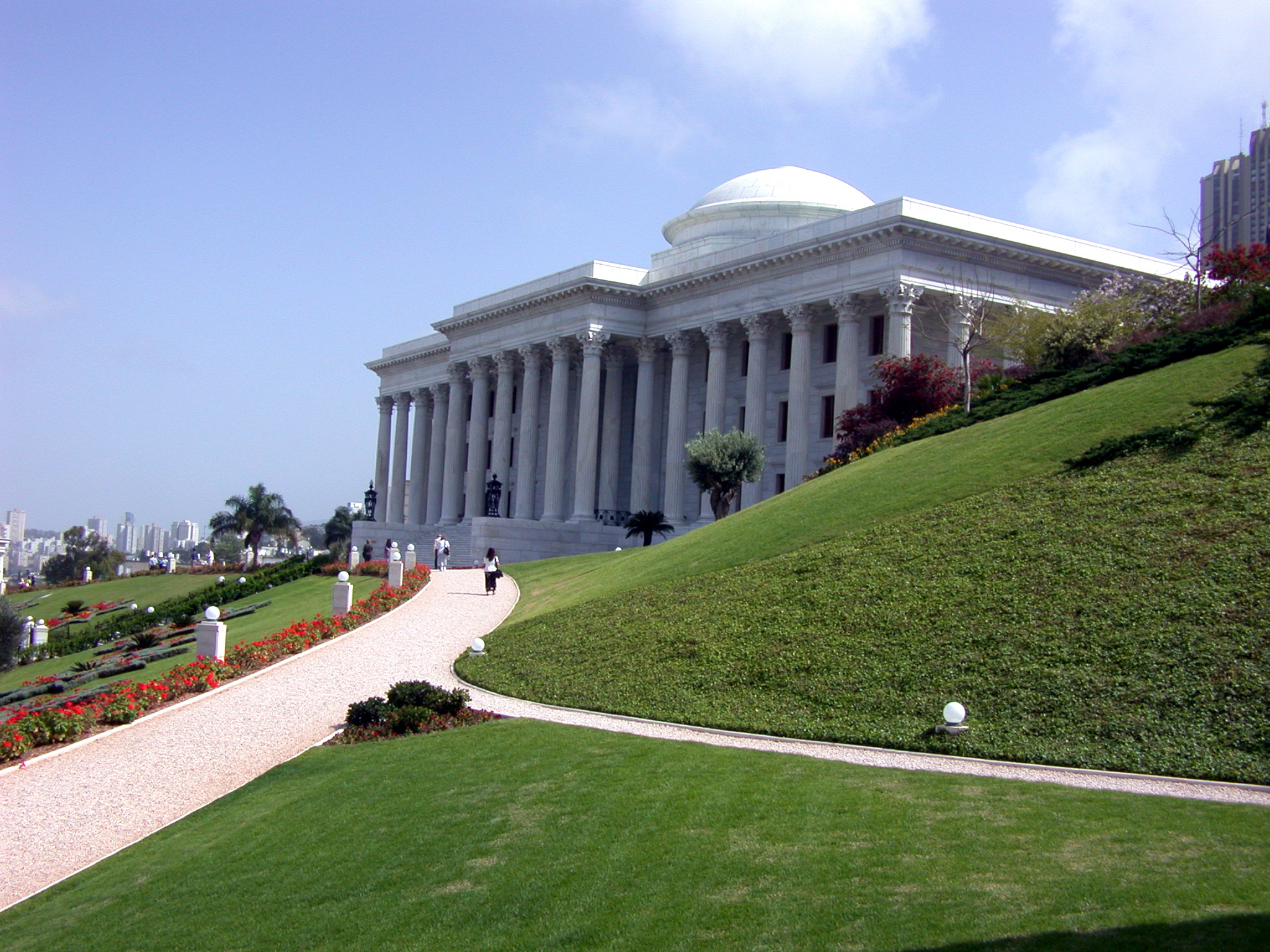 Seat of the Universal House of Justice